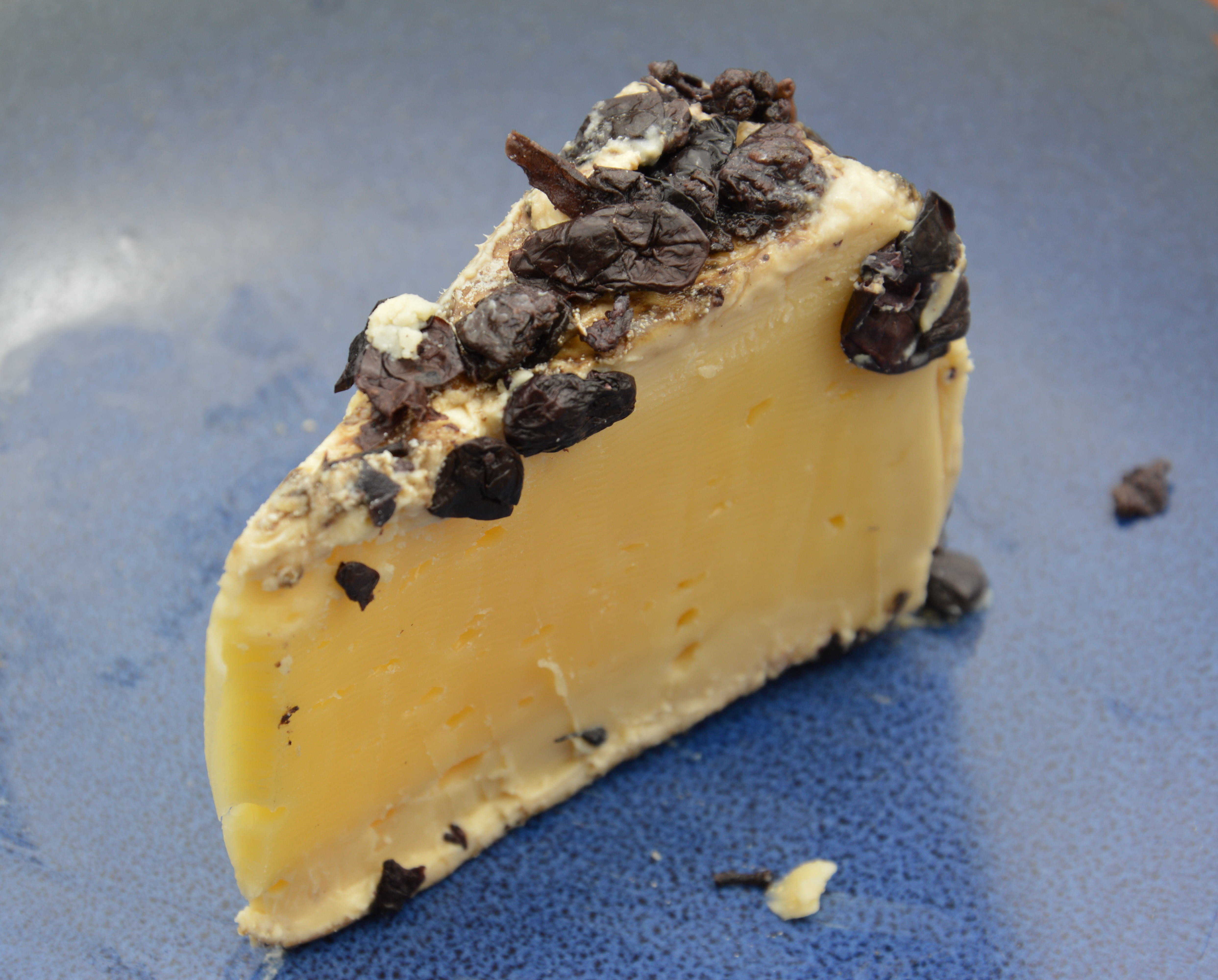 "Tomme au Marc de Raisin" cheese (with grape pomace)